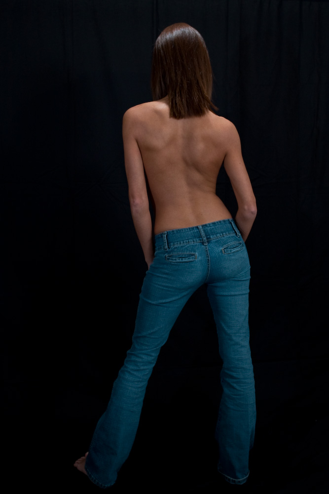 Not sure if I've ever seen a simple pair of jeans look so good.